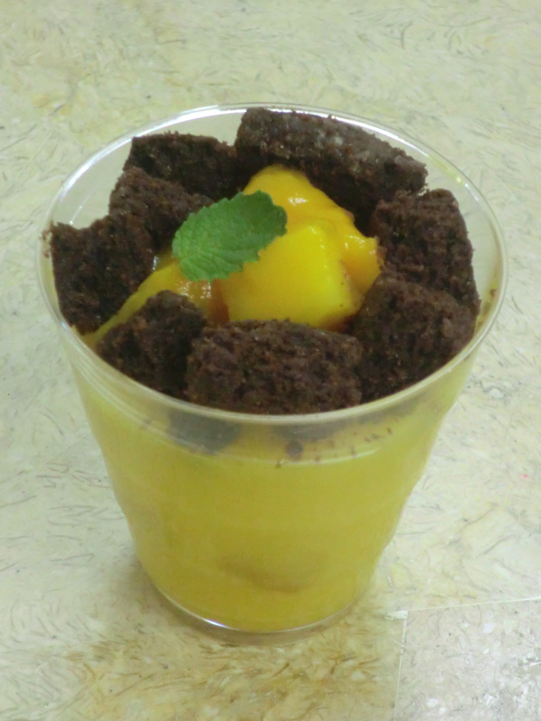 "Koisuru-Kojimango"(Mango pudding) produced by Rino Sashihara of HKT48 in TV program "Tamariba".